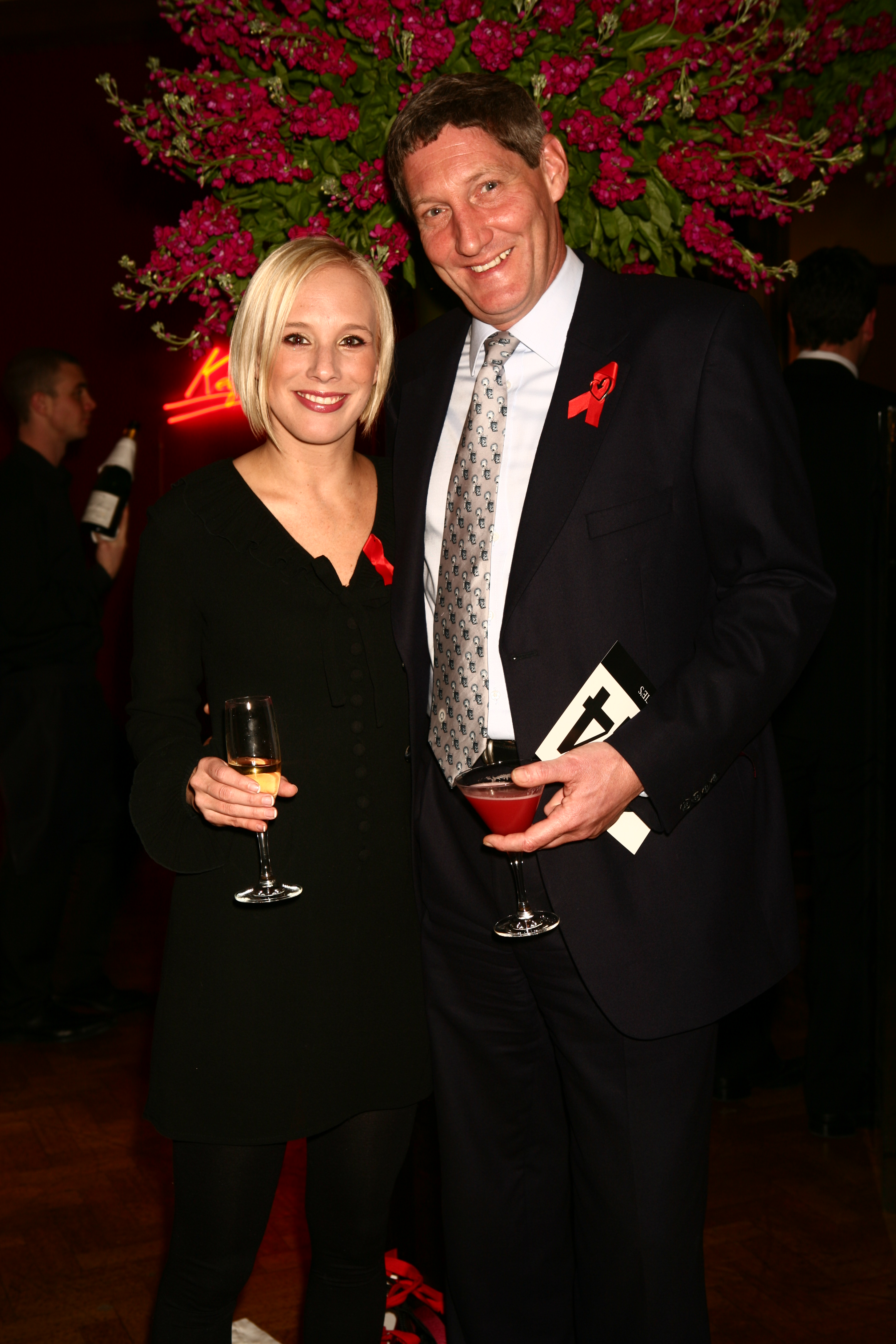 Kirsten O'Brien and Nick Partridge Lighthouse Gala Auction in aid of Terrence Higgins Trust. Please attribute photo to Piers Allardyce